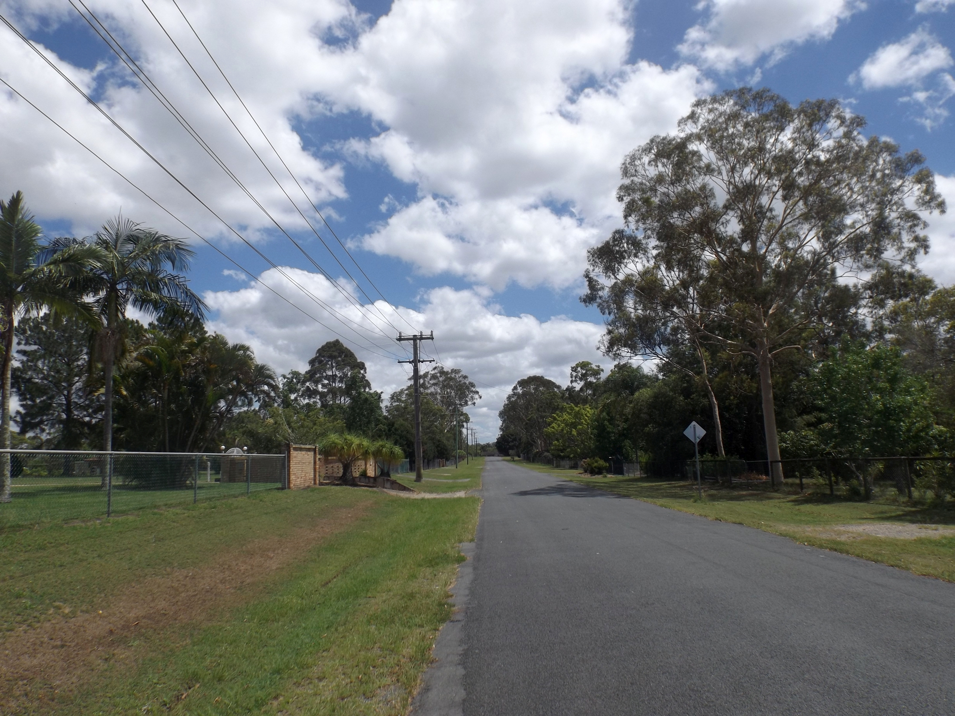 Photo of Solandra Road at Park Ridge South, Logan City, Queensland, Australia.